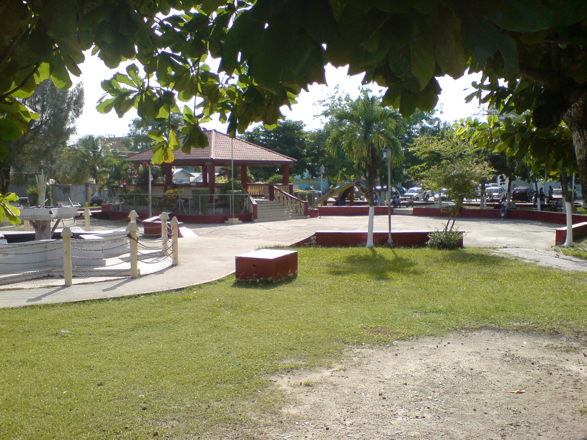 The main square in the centre of Orange Walk Town, Belize, Central America.